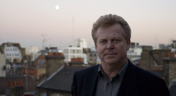 Portrait of Colin MacCabe.